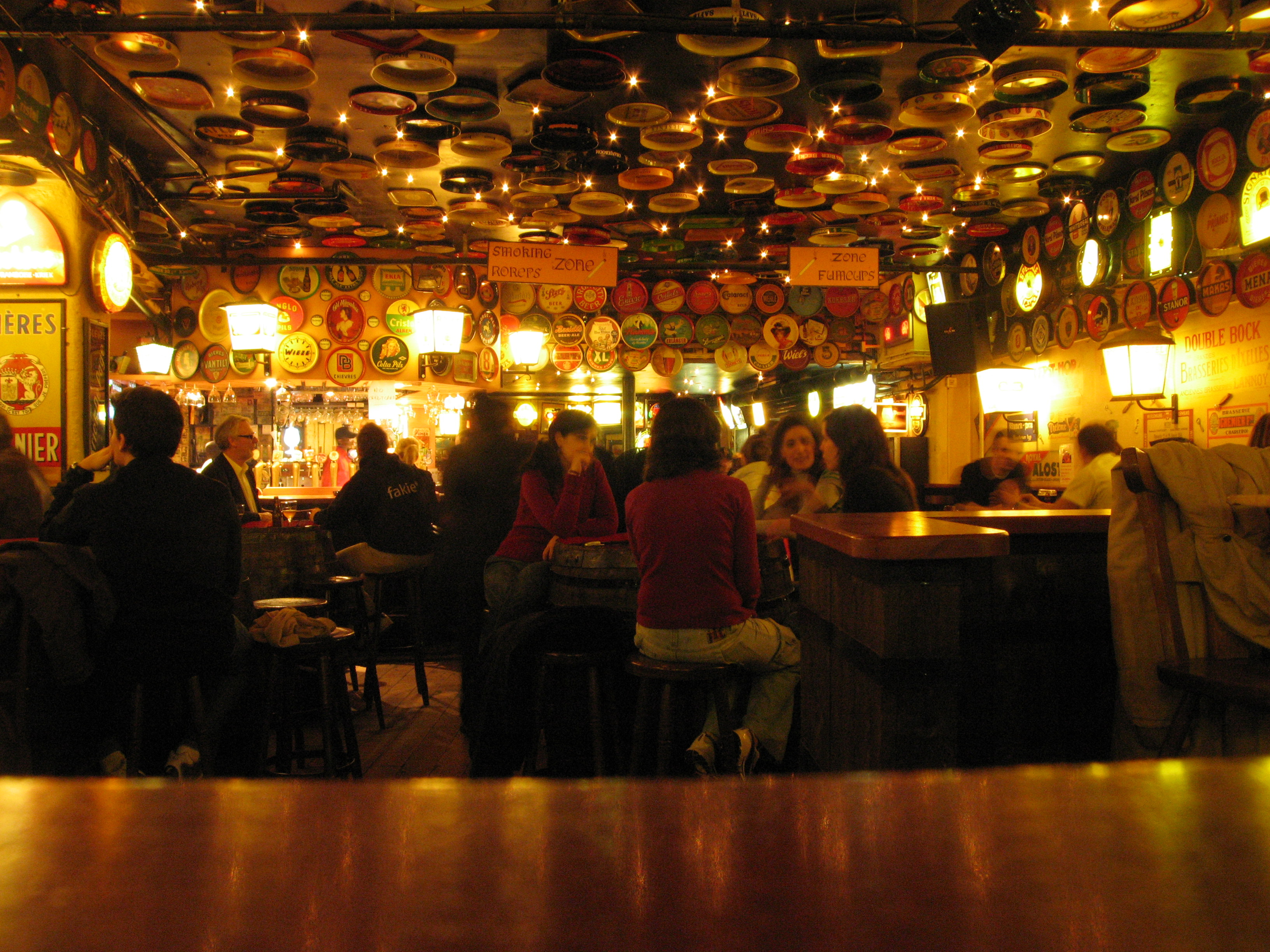 Interior of Délirium Café